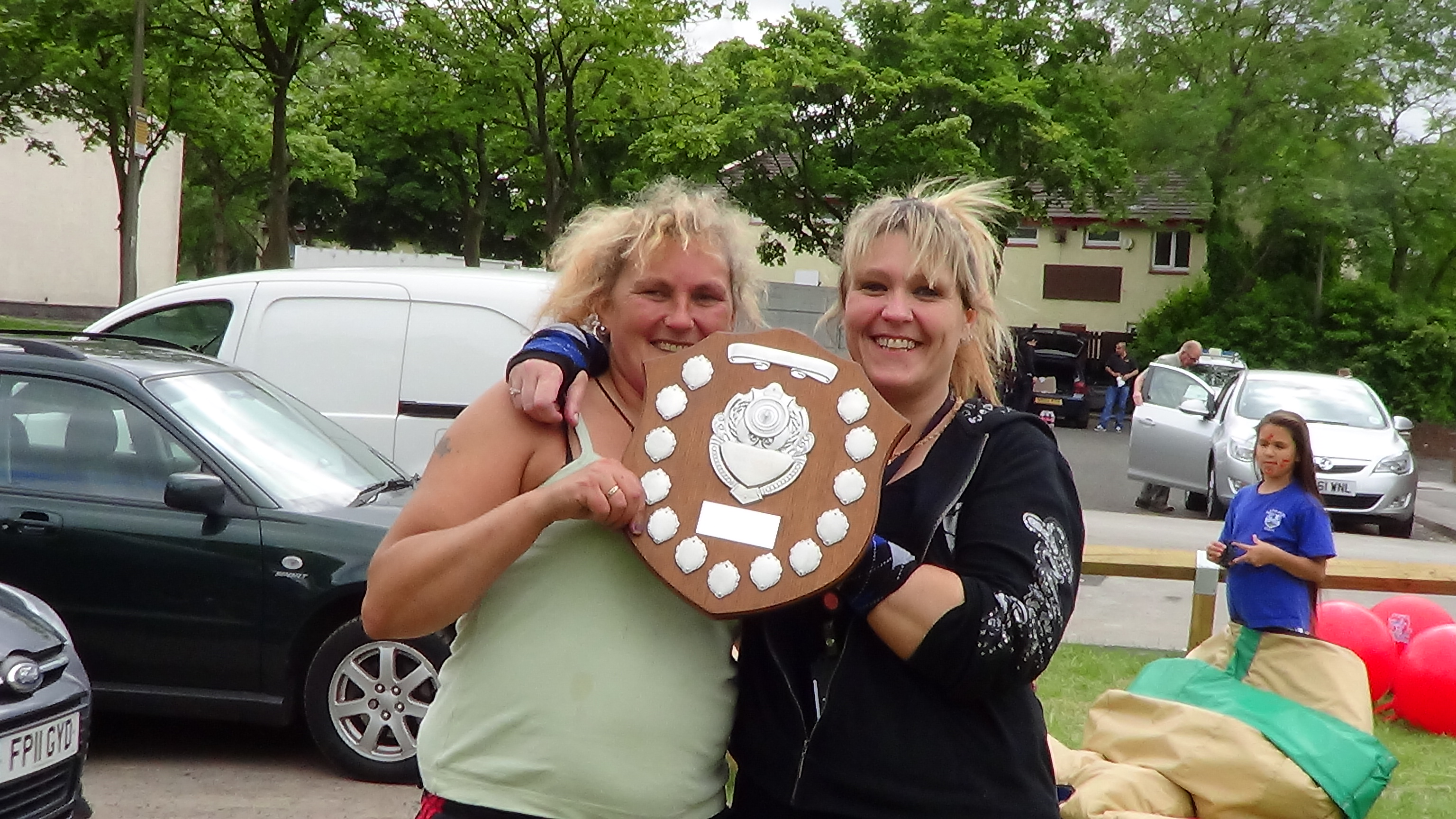 File:Community BBQ & Disco Two of Women that are will go that extra mile to make a difference ,,,, using our assets Clayton Brook The best example of Assest based community Development there is ...